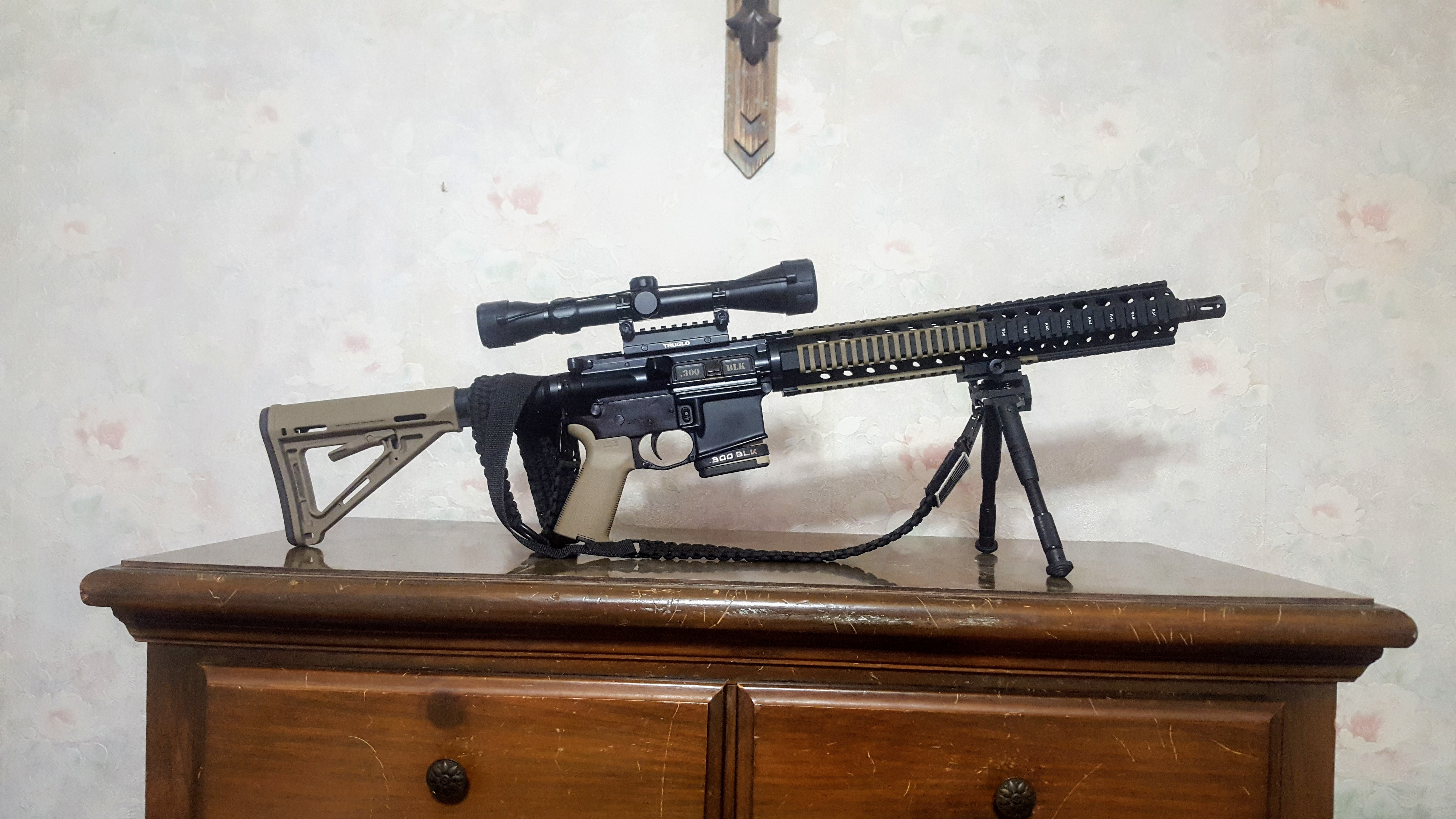 300 Blackout AR-15 built using a Palmetto State Armory PA lower reciever